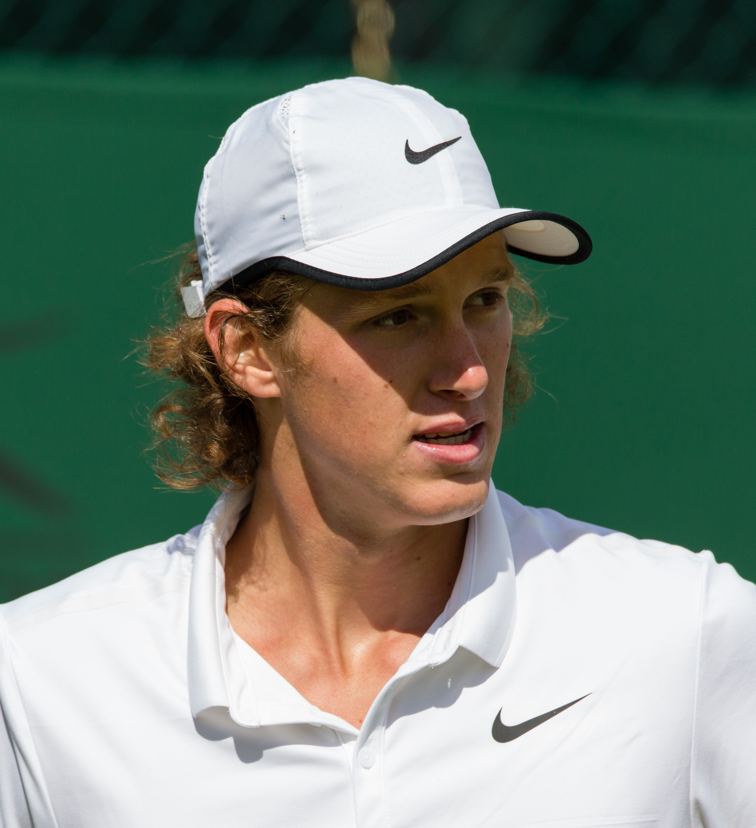 Nicolás Jarry competing in the first round of the 2015 Wimbledon Qualifying Tournament at the Bank of England Sports Grounds in Roehampton, England. The winners of three rounds of competition qualify for the main draw of Wimbledon the following week.